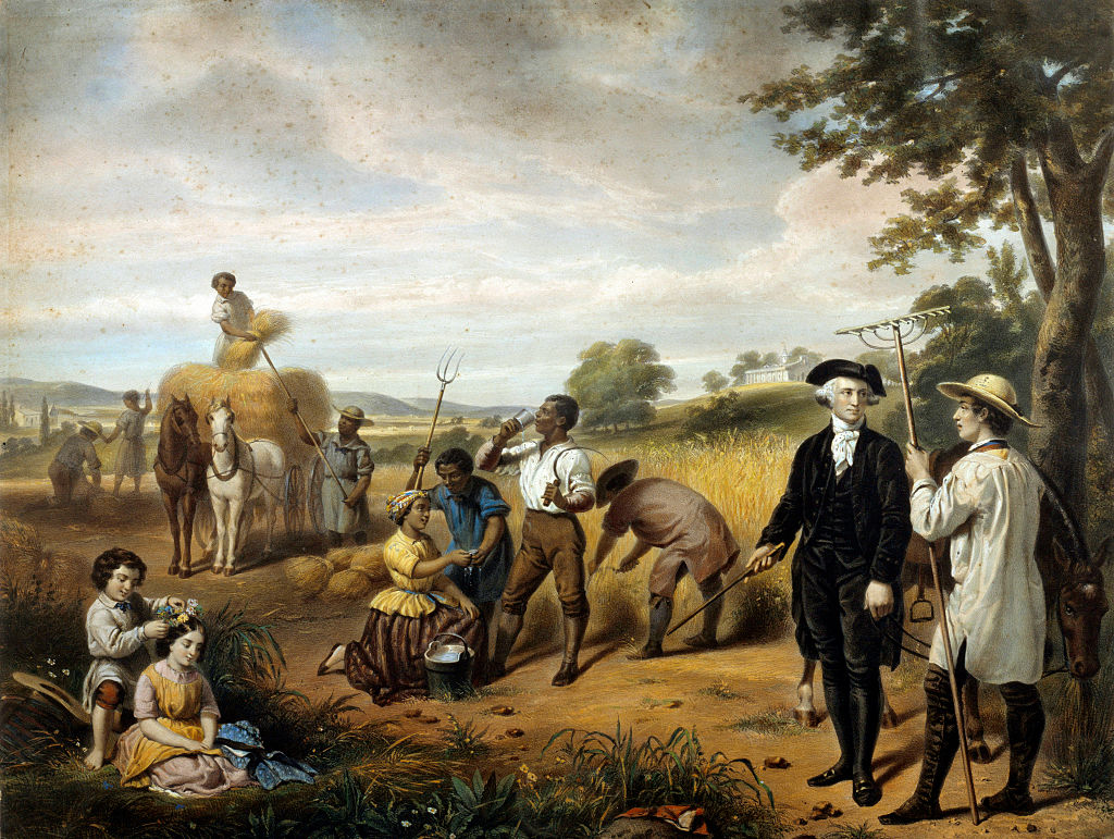 Washington standing among African-American field workers; Mt. Vernon in background. Hand-colored lithograph by Régnier (lithographer), 18.25 x 24.25 inches, after a painting by Junius Brutus Stearns (1810-1885). Printed by Lemercier, Paris (printer), c1853. Library of Congress Prints and Photographs Division